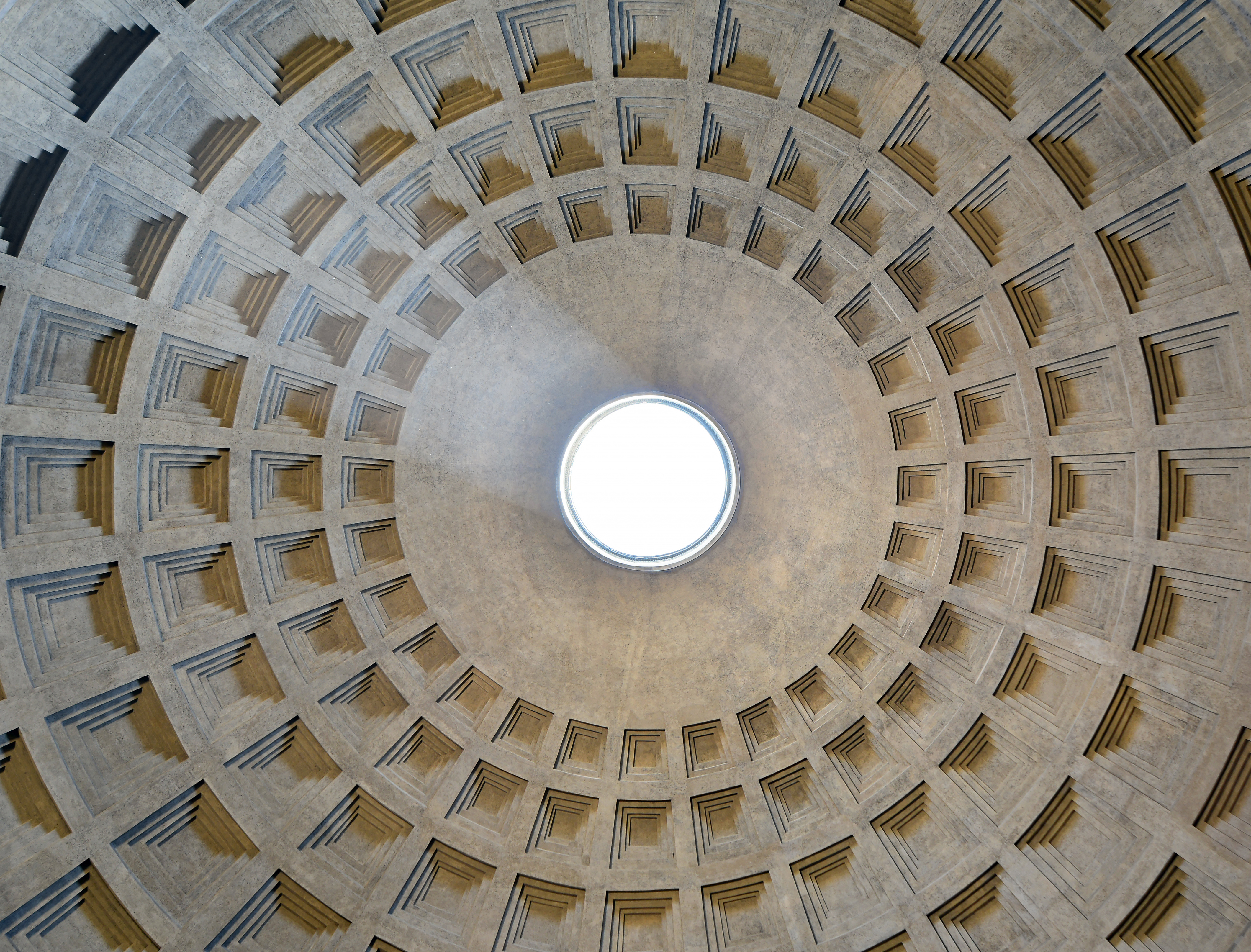 Pantheon (Rome) - Dome interior